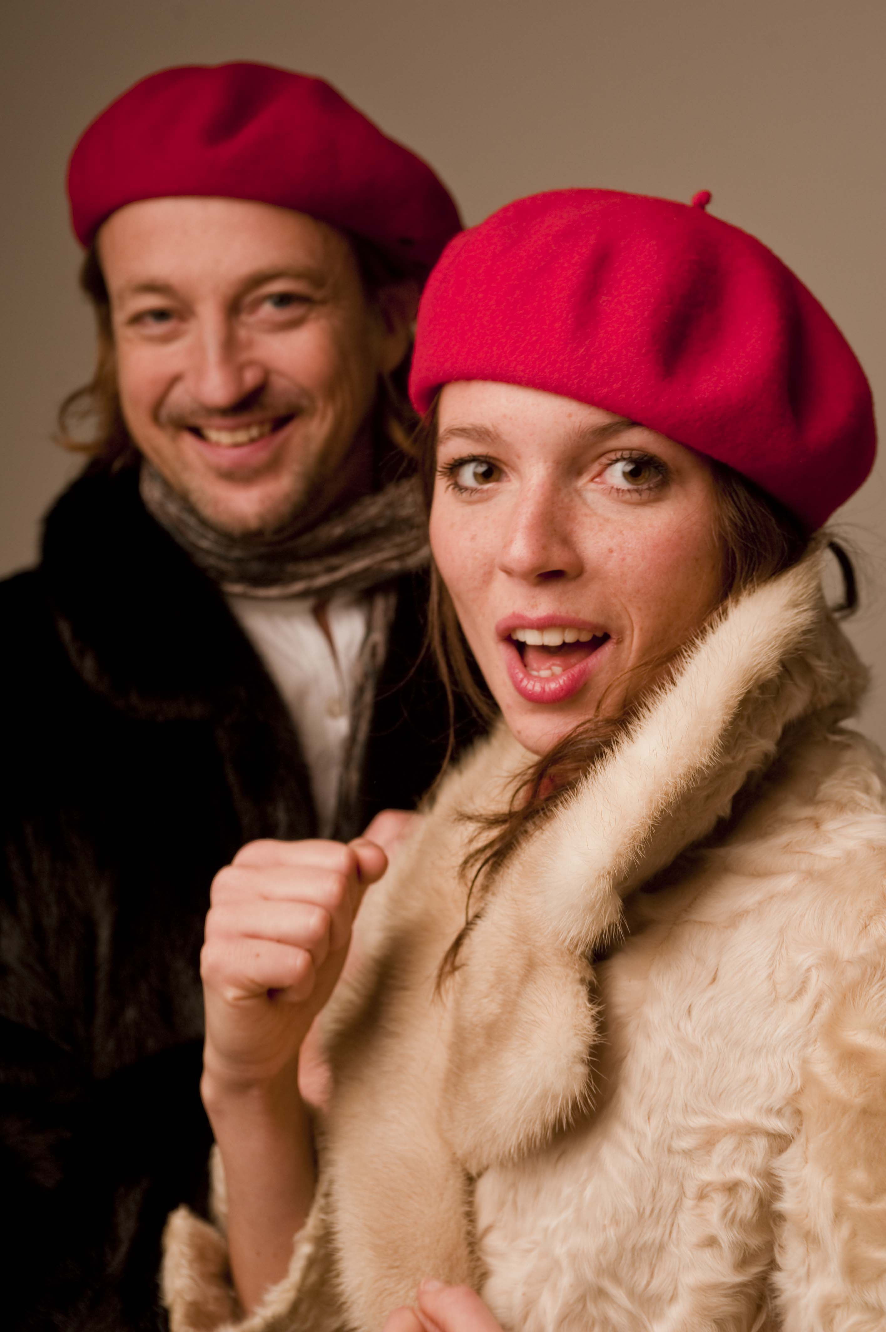 I hereby assert that I am the creator and/or sole owner of the exclusive copyright of [hela filnamnet/filnamnen så som de laddas upp på Commons]. The text of this web page is available for modification and reuse under the terms of the Creative Commons Attribute Share-Alike, version 3,0 and earlier. I acknowledge that I grant anyone the right to use the work in a commercial product, and to modify it according to their needs, as long as they abide by the terms of the license and any other applicable laws. I am aware that I always retain copyright of my work, and retain the right to be attributed in accordance with the license chosen. Modifications others make to the work will not be attributed to me. I am aware that the free license only concerns copyright, and I reserve the option to take action against anyone who uses this work in a libelous way, or in violation of personality rights, trademark restrictions, etc. I acknowledge that I cannot withdraw this agreement, and that the work may or may not be kept permanently on a Wikimedia project. LINUS HALLSÉNIUS, Linus Hallsénius